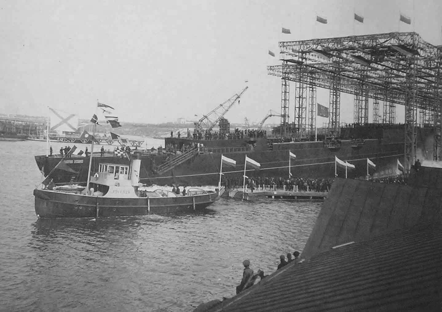 Imperial Russian cruiser Admiral Nakhimov, 25 October 1915.